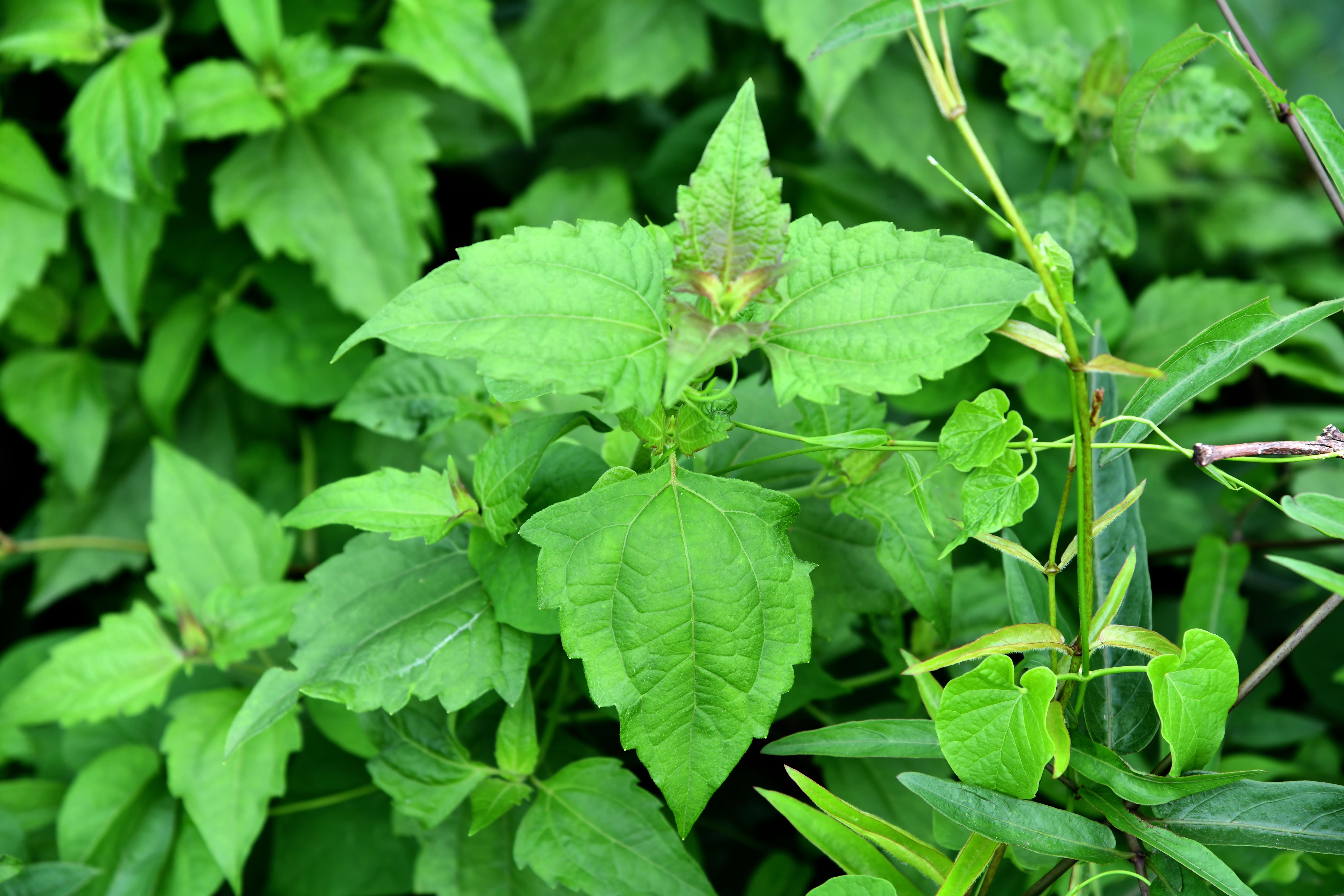 สาบเสือ สมุนไพรไทย Bitter bush, Siam weed from Thailand.